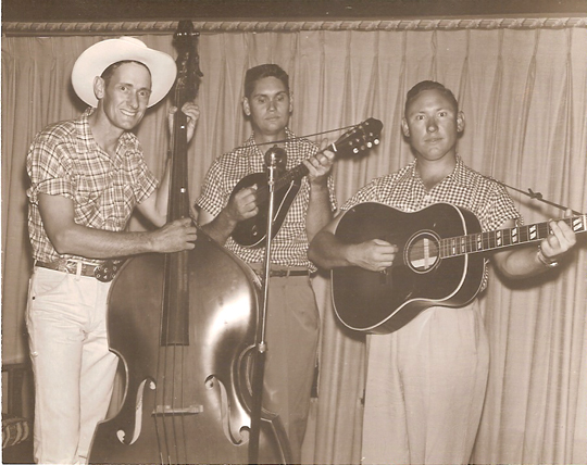 Bluegrass band, Olen and The Bluegrass Traveler's, played every weekend, on the radio station, KCES FM in Eufaula, OK